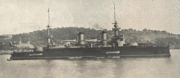 photo of Iéna a french ship